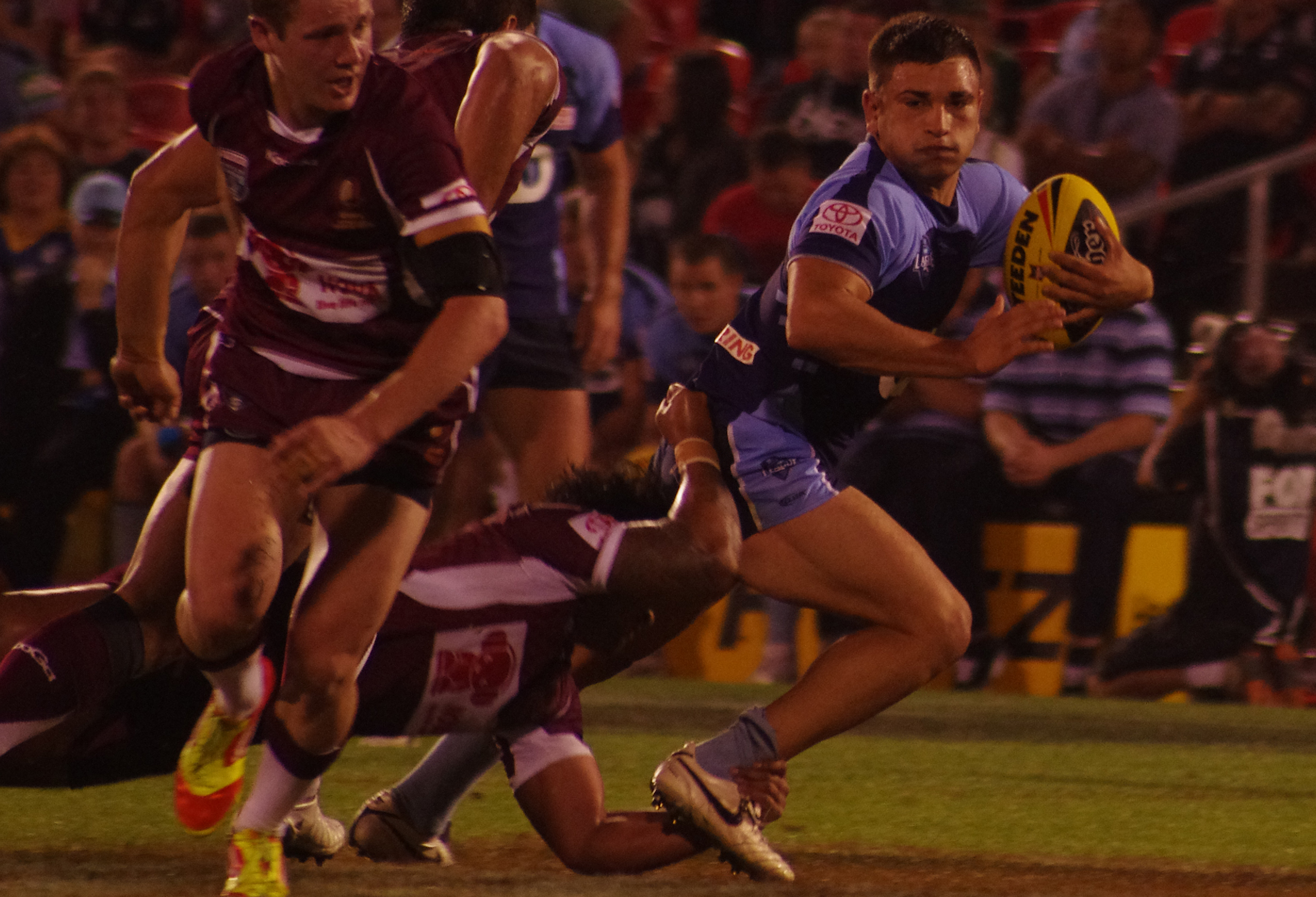 Evander cummins evades tackles while playing for NSW U20